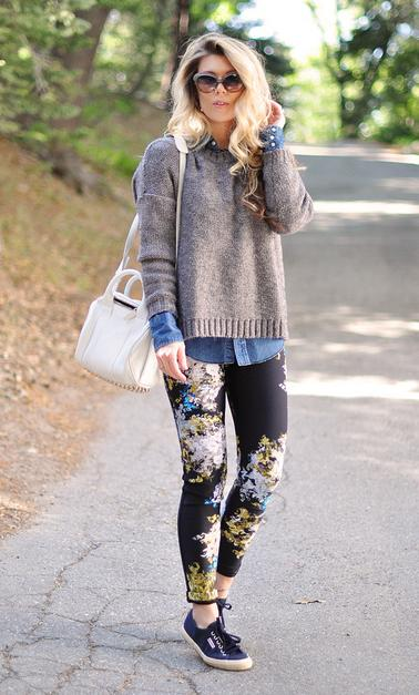 A woman wearing a sweater and floral neoprene pants.